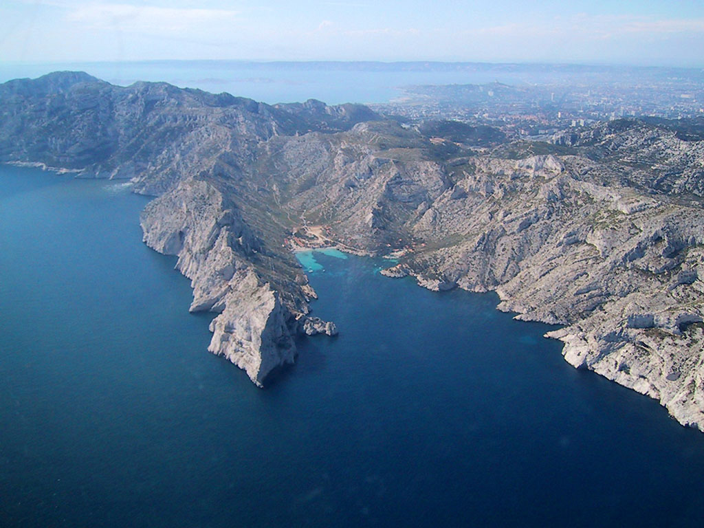 Few miles west from The city of Cassis.